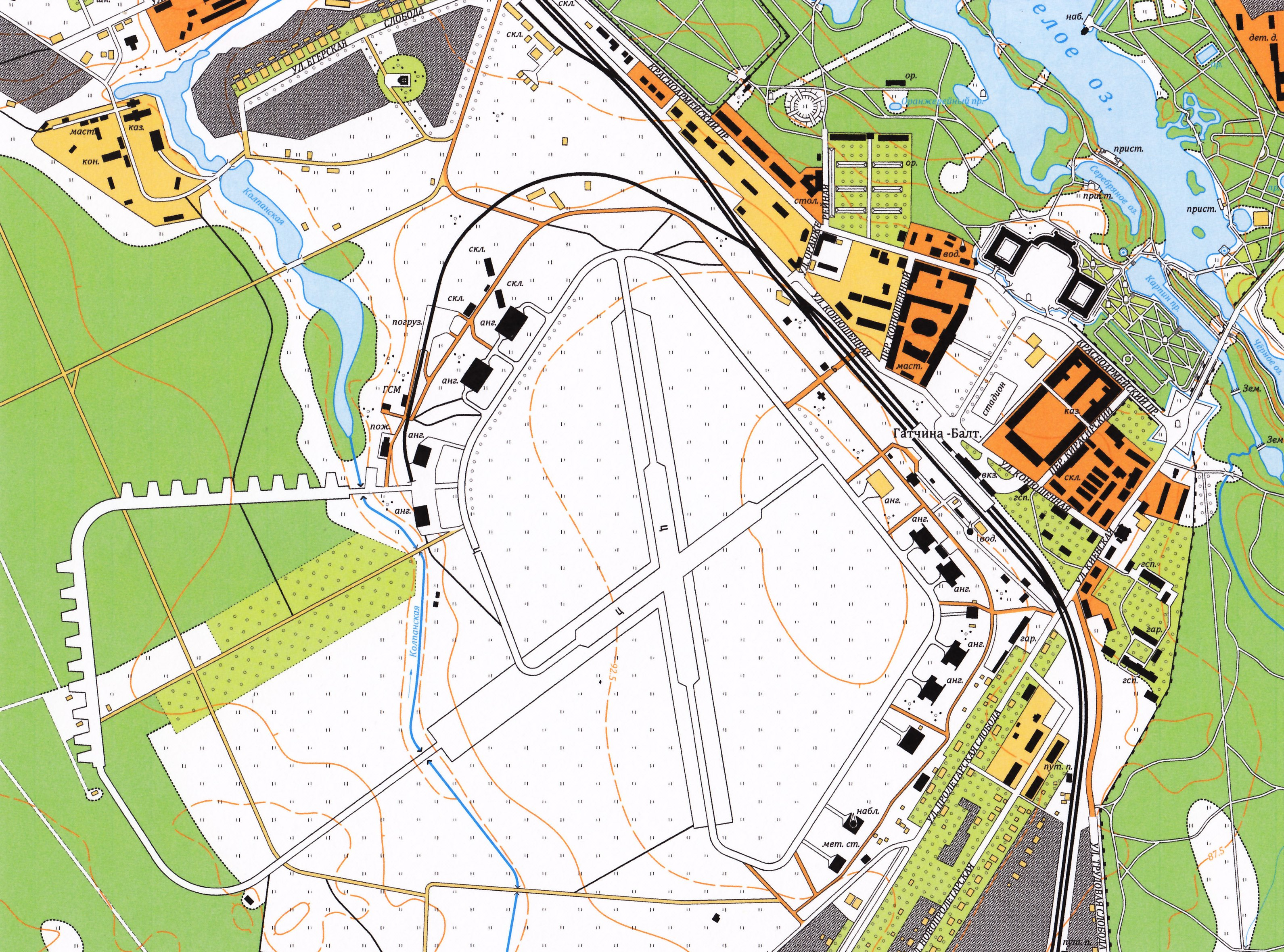 Airfield of Gatchina as of 1941. Runways with artificial ground (in the middle). Service-technical buildings including hangars along the runway. Zone of spreading (to the West border, in the forest). Gatchina city (to the right).